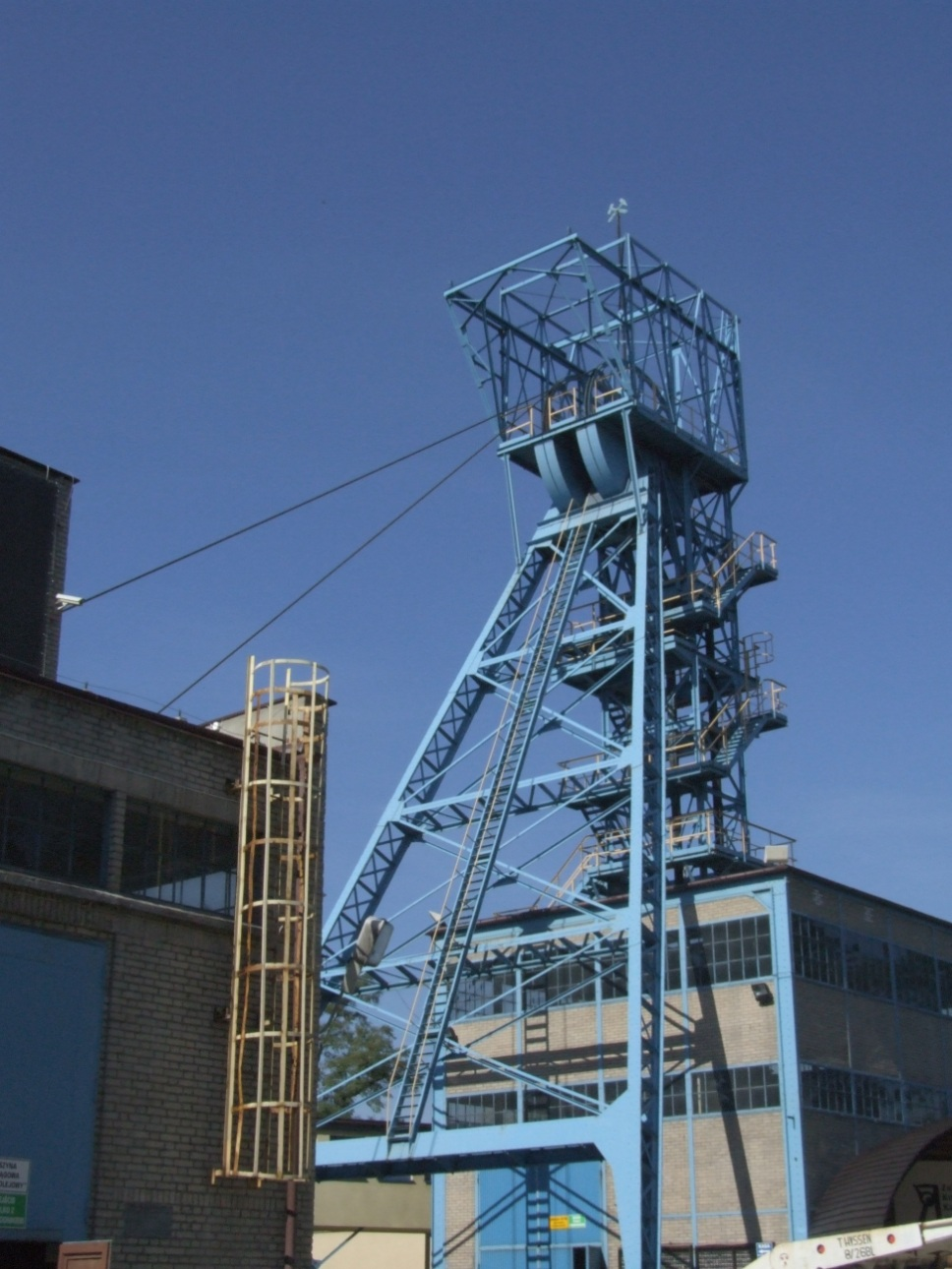 The shaft of subterranean skansen Guido in Zabrze